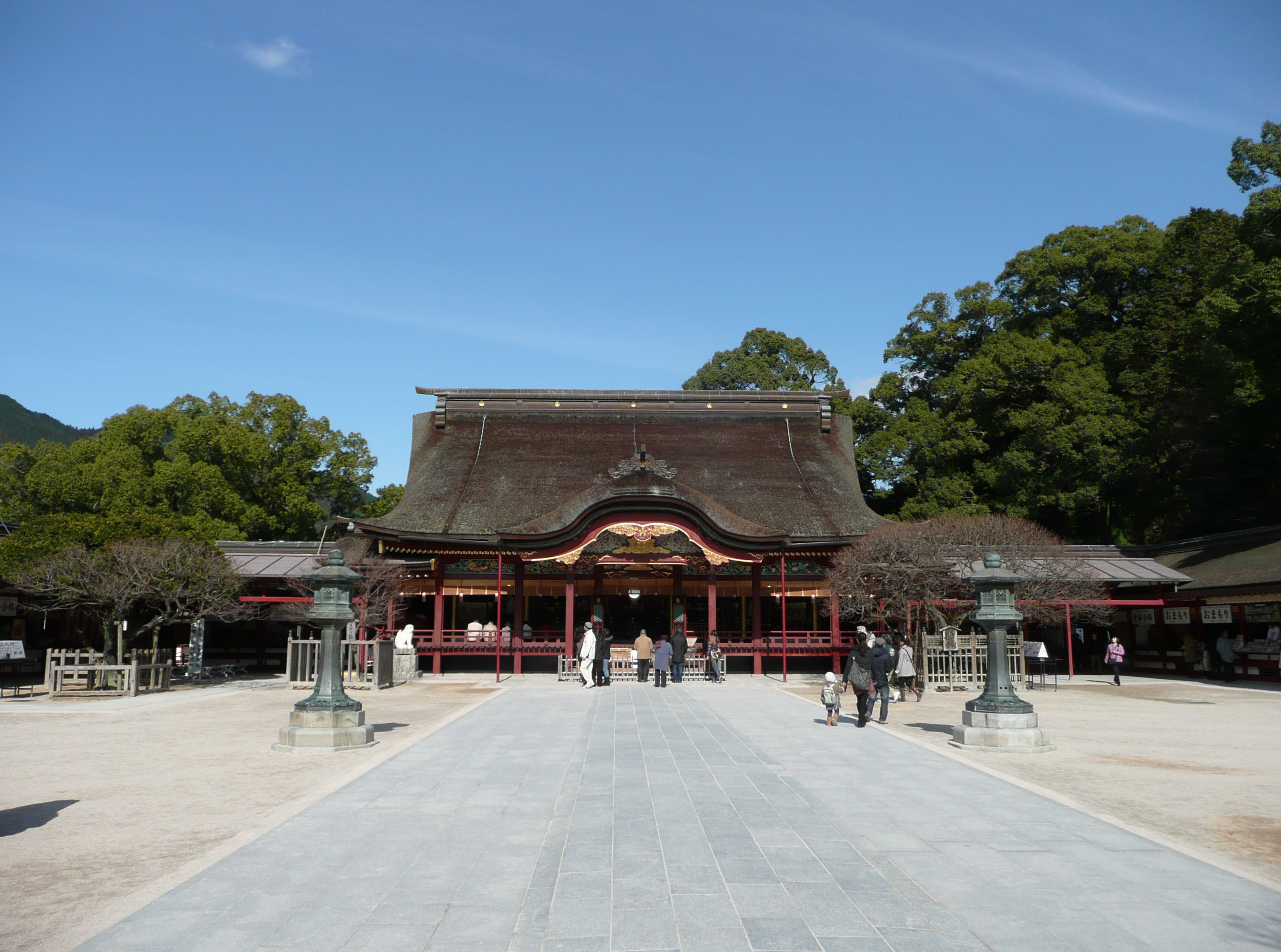 大宰府天満宮の境内